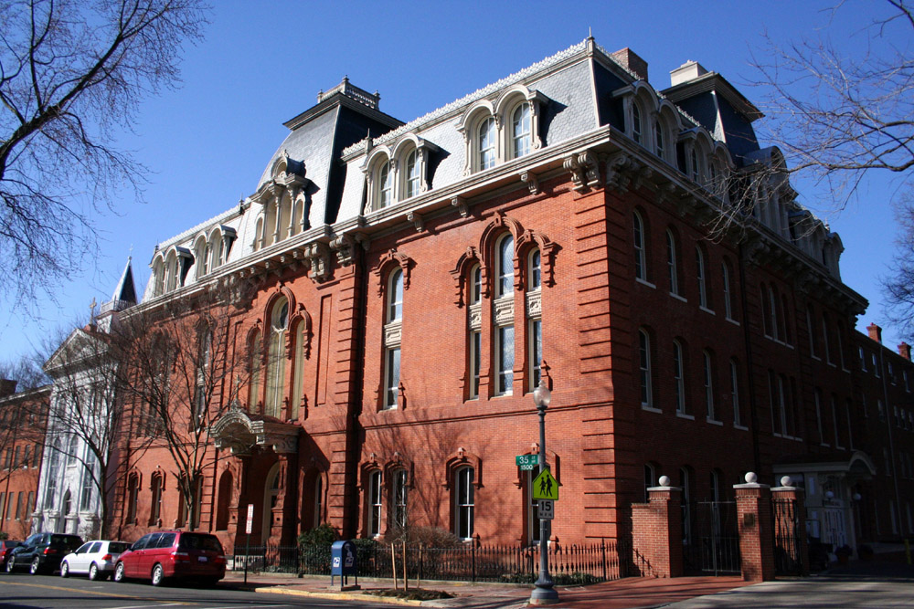 Georgetown Visitation Preparatory School, Washington DC. Photo taken by uploader.